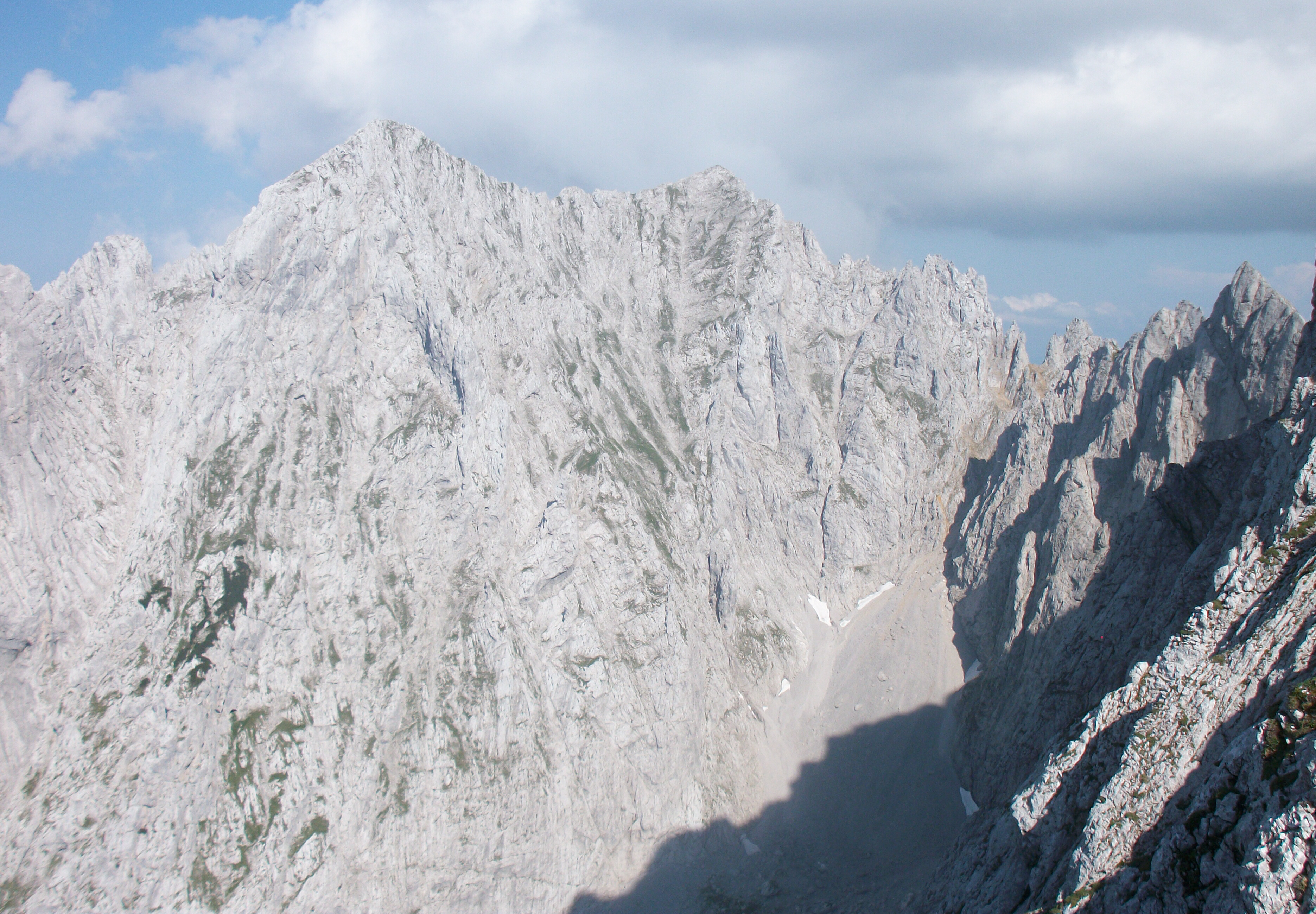 Fleischbank, Hintere Karlspitze, Vordere Karlspitze, Kopftörl, Hoher Winkel, Kopftörlgrat